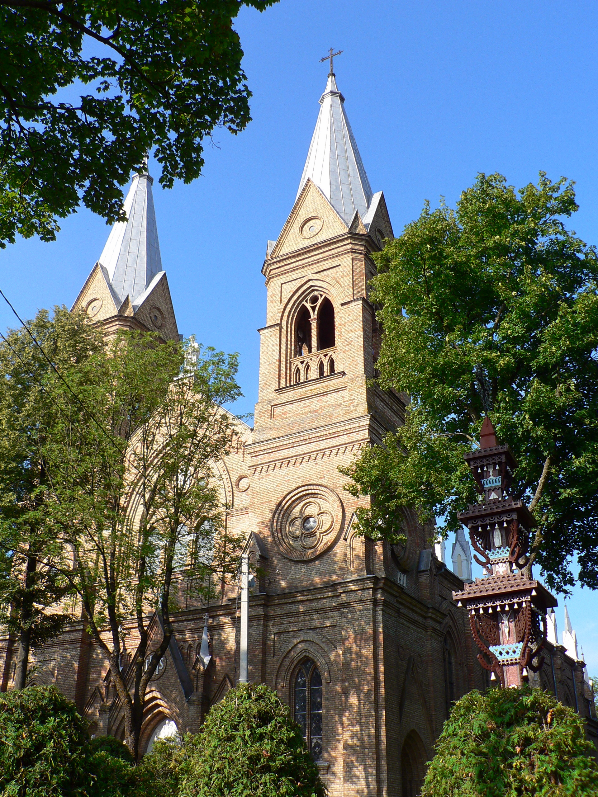 Krekenava church (1902), Krekenava, Lithuania